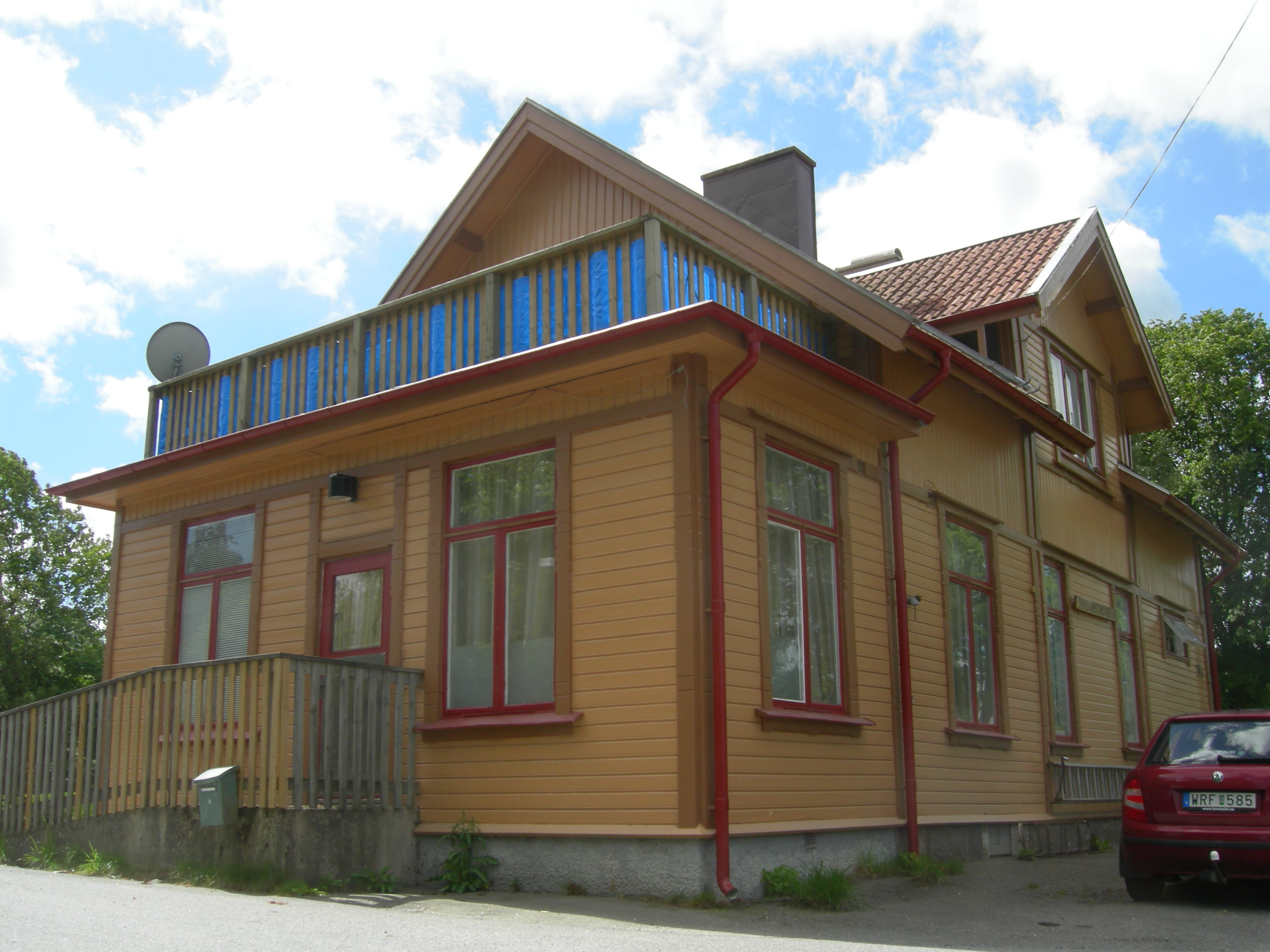 Old railwaystation, Olofstorp